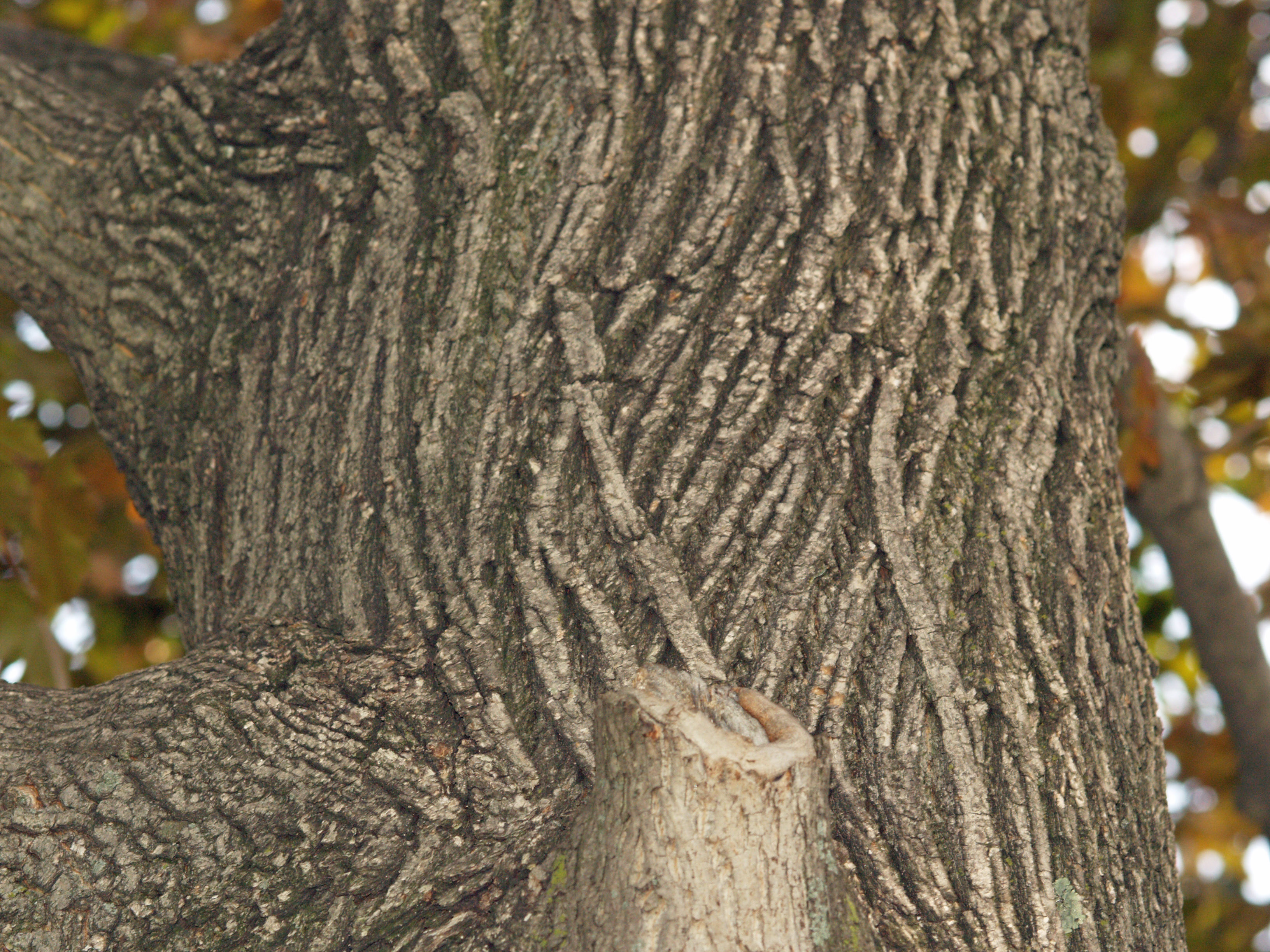 Japanese Maple bark by David Shankbone (Acer palmatum)